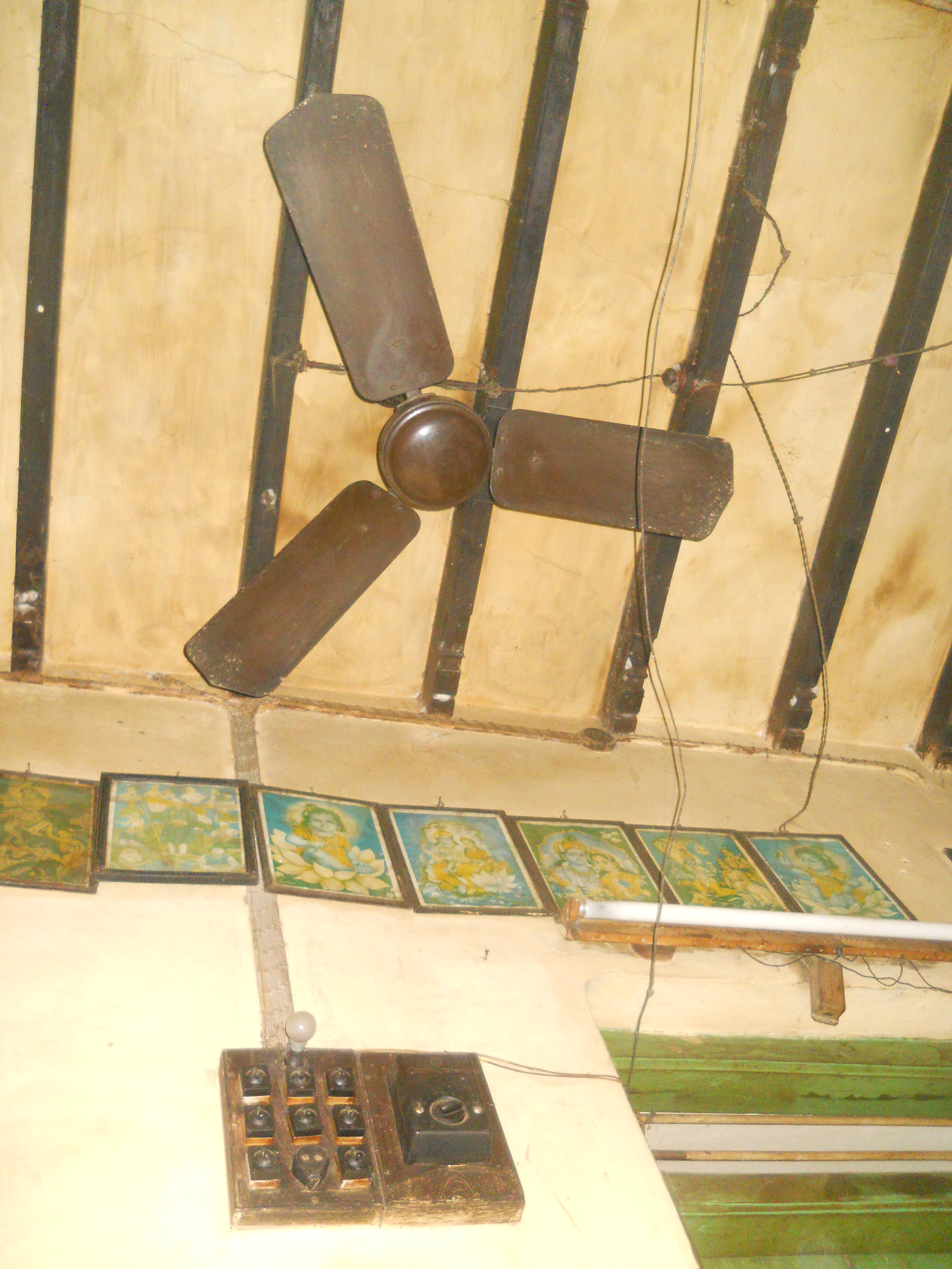 Fitting the fan in 1962, without any interruption, without repair, working is smoother, at Vinjamoor, Nellore (dt), A.P, India.